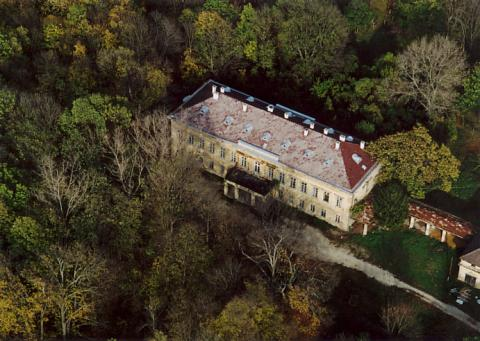 Káloz-Belmajor, Zichy palace, Hungary, aerialphotography This is a photo of a monument in Hungary, Identifier: 3662